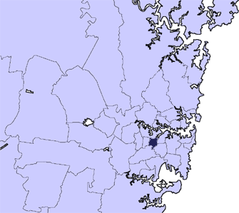 Locator Map Ashfield lga sydney.png Based on Image:Ku-ring-gai sydney.png by User:Randwicked.